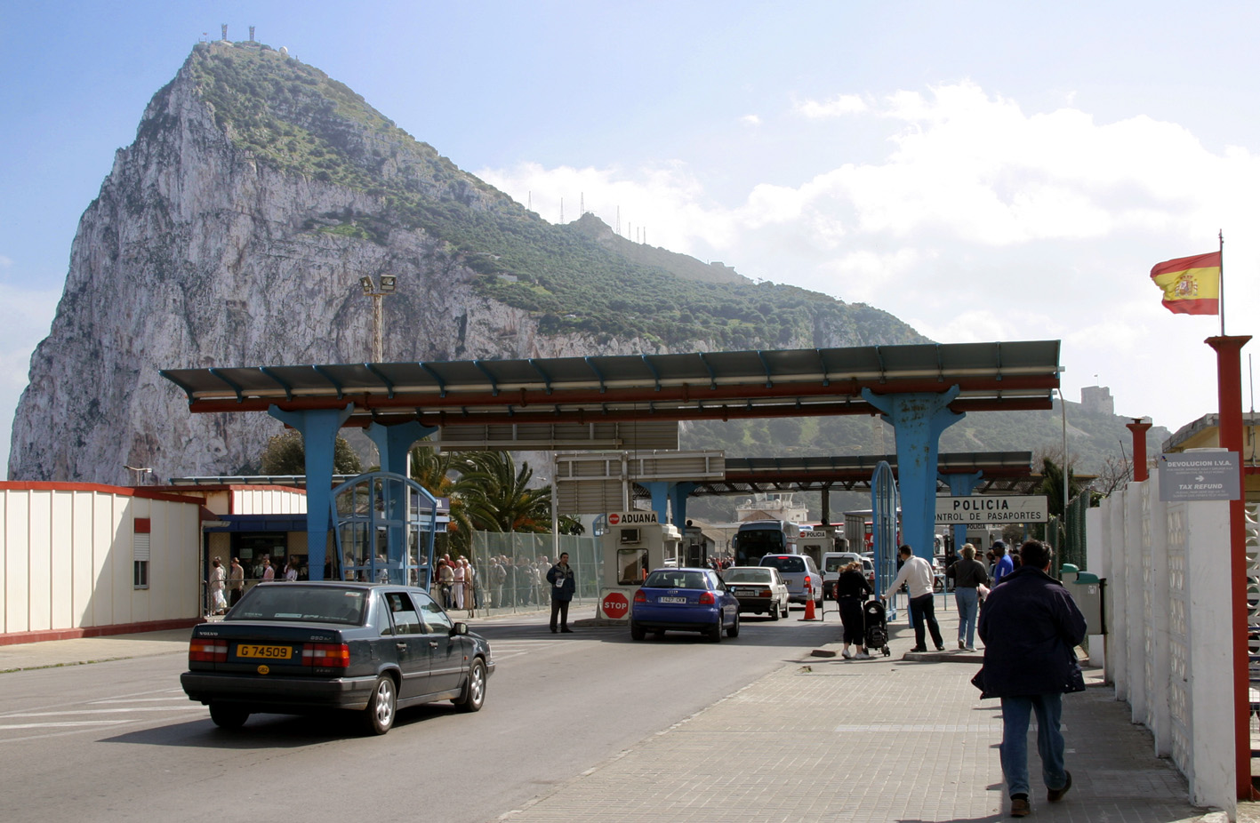 Border between Spain and Gibraltar (taken from the Spanish side)